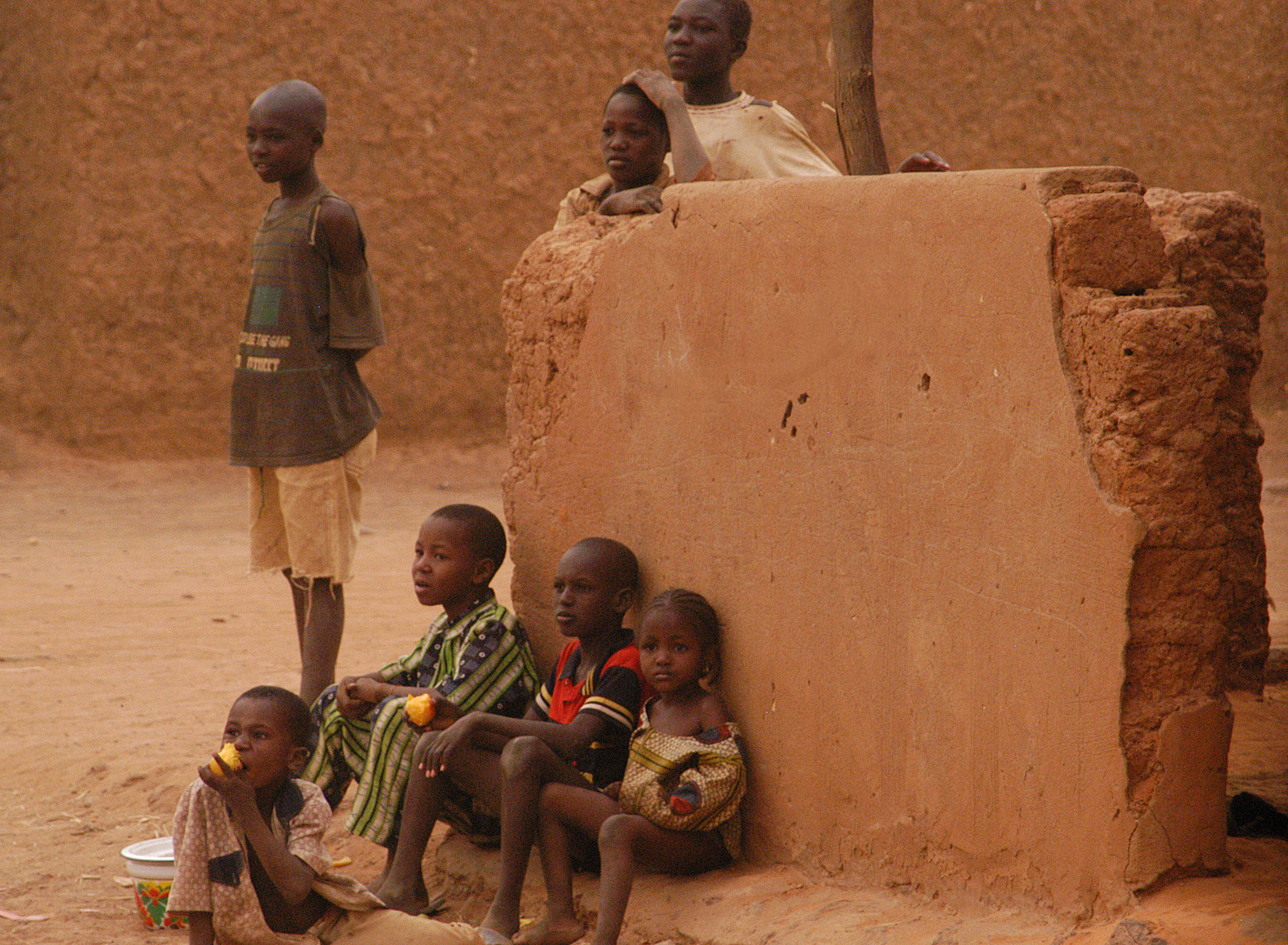 Nigerien children watch as Marines from 3rd Platoon, Echo Company, 2nd Battalion, 24th Marine Regiment pass out food to the citizens of Tahoua, Niger. The Marines are in Niger as part of exercise Shared Accord 2006, an exercise that brings humanitarian aid to Niger, while allowing bilateral U.S. and Nigerien counter-terrorism training. Photo ID: 2006322154830 Submitting Unit: Marine Forces Reserve